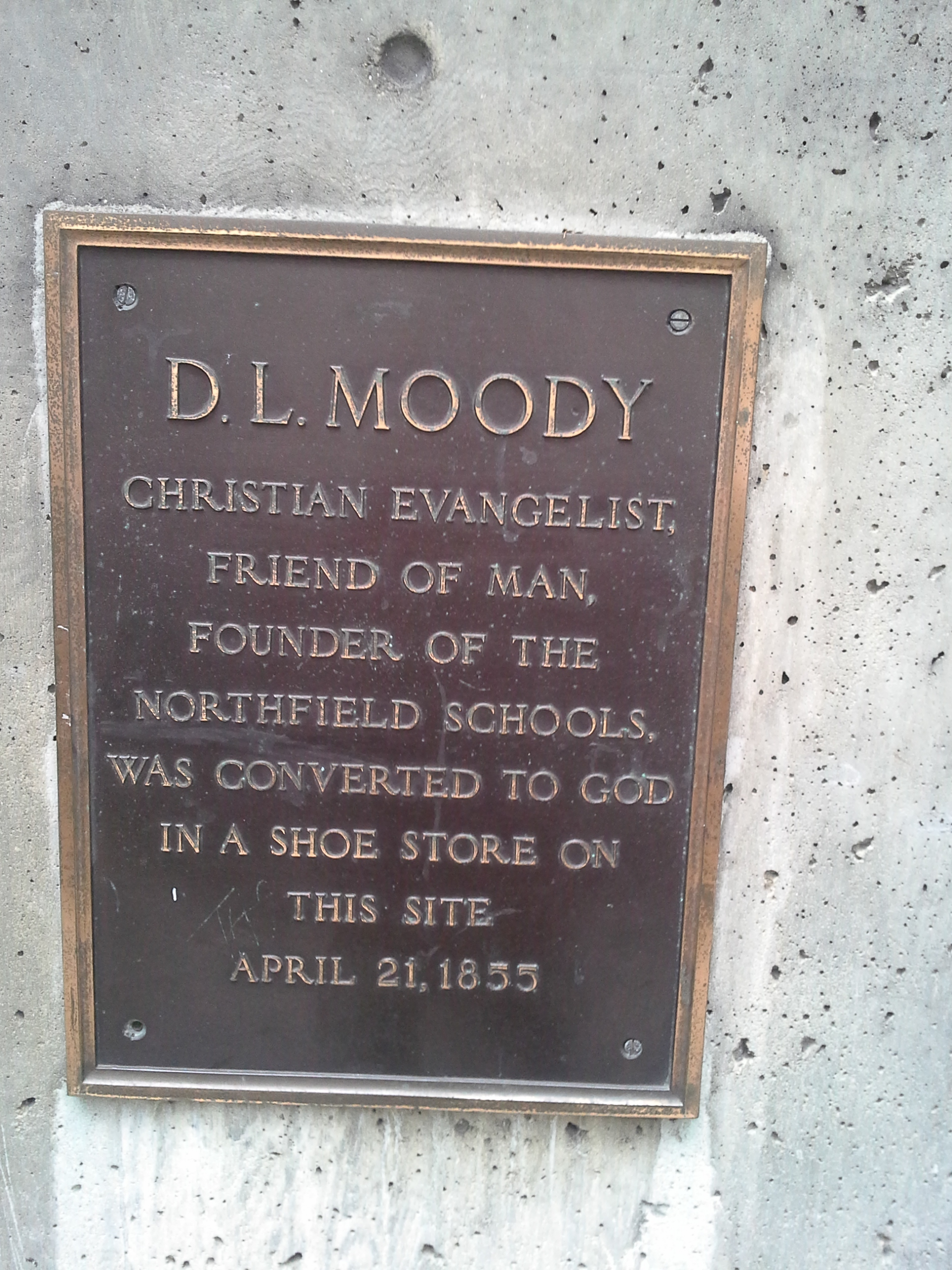 Plaque on Site of the conversion of Dwight Moody in Boston, Massachusetts MA USA on Court Street. Currently home to a Staples Store in 2012.